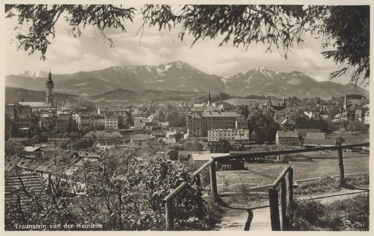 Traunstein, Upper Bavaria, Germany, view from the Weinleite to the South, in the background Hochfelln mountain and Hochgern mountain, circa 1930.